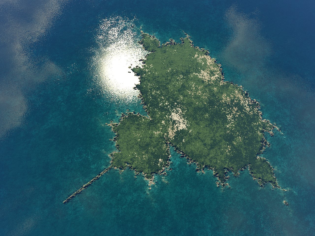 Mandelbrot fractal. Rendered as an island with Terragen, a fractal-based landscape generator.